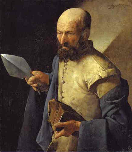 Saint Thomas